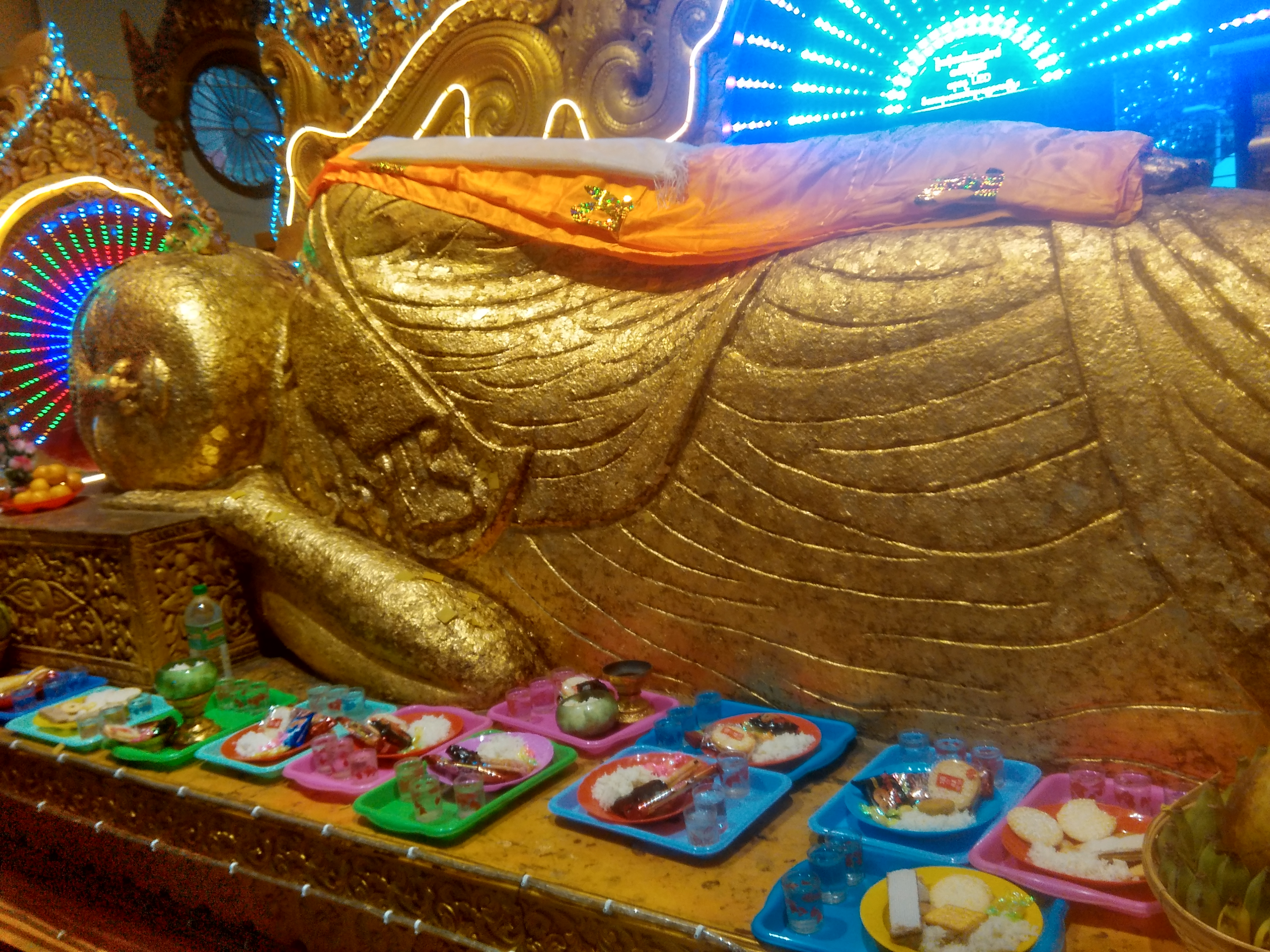 A Laung Taw Kat Tha Pa မြန်မာဘာသာ: မုံရွာမြို့မှတစ်ဆင့် သွားရောက်လည်ပတ်ရသည့် အလောင်းတော်ကဿပမထေရ် ဖြစ်သည်။ မထေရ်သည် ပျံလွန်တော်မူ‌နေပုံ ဖြစ်သည်။